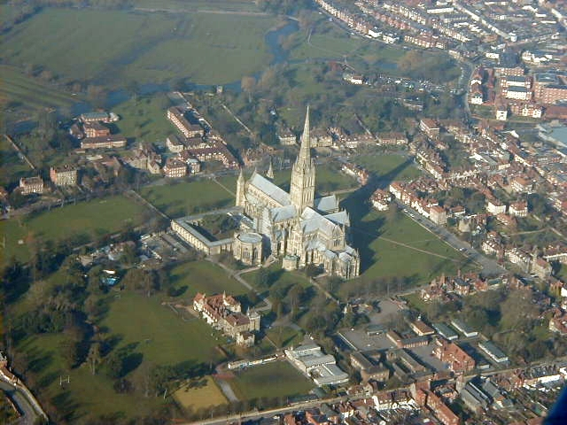 Salisbury Cathedral from the air, near to Salisbury, Wiltshire, Great Britain. A view of the cathedral and surroundings from a light aircraft.